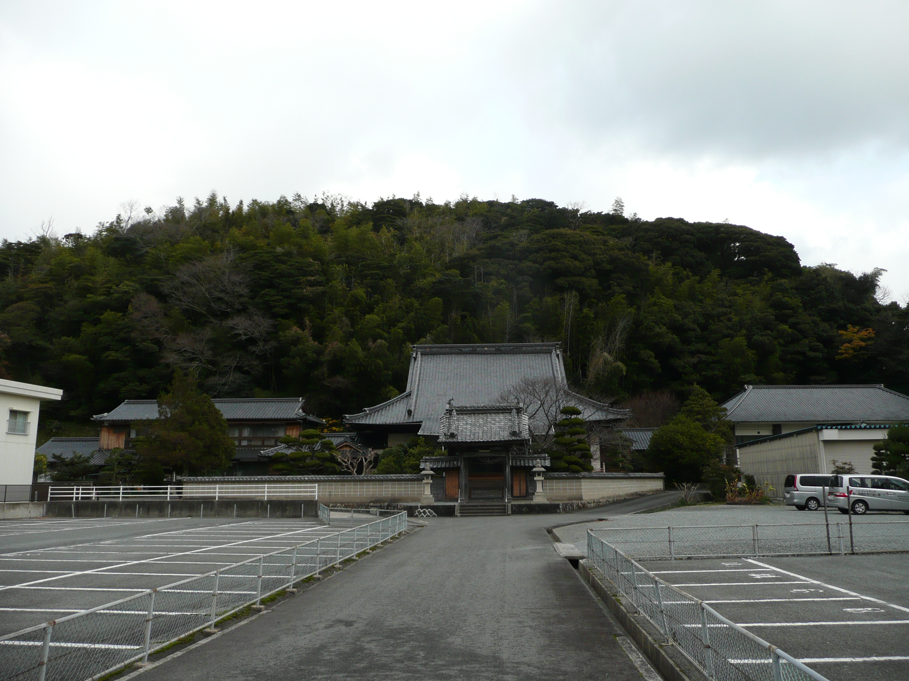 亀山城跡